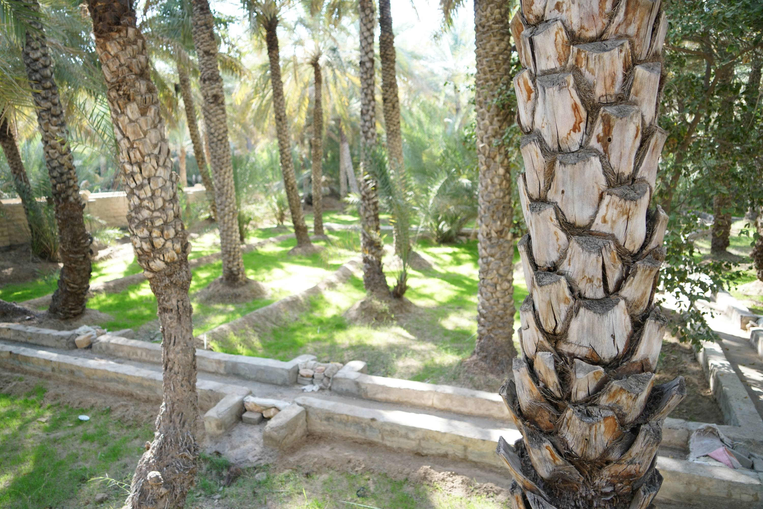 Falaj (irrigation) system and date palms in Al Ain Oasis, UAE